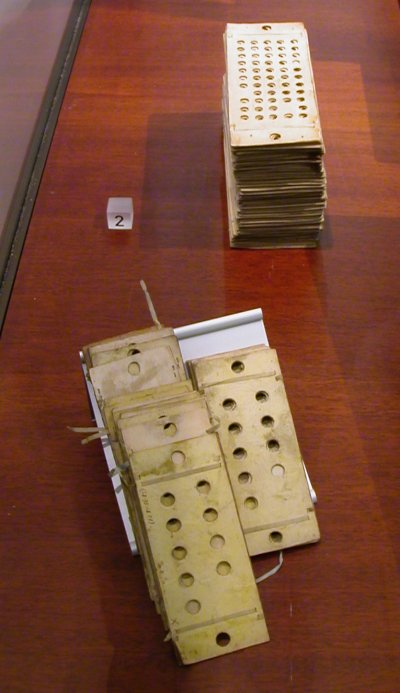 Punched cards for programming the Analytical Engine, 1834-71 "Babbage intended to use punched cards to feed instructions and data into the Analytical Engine. The smaller cards are 'Operational Cards' which specify the mathematical operations to be performed - multiplication, division, addition or substraction. The larger cards are 'Variable Cards' which dictate where the numbers to be operated on are found in the machine and where the results should be placed." Science Museum, London